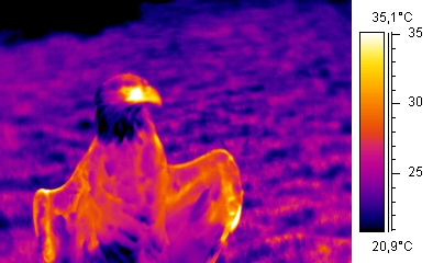 thermographic image of an eagle